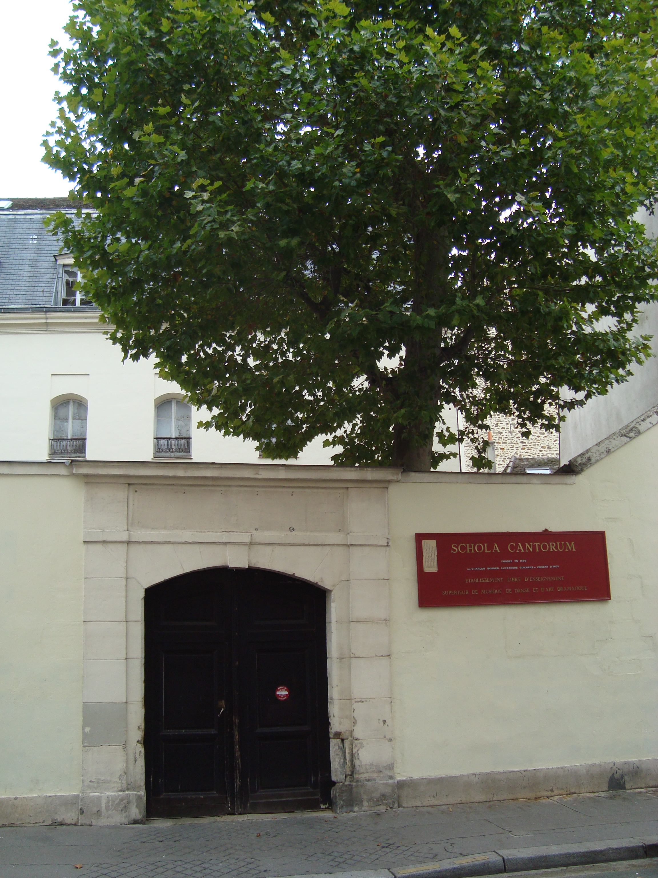 The Schola Cantorum in Paris, rue Saint-Jacques